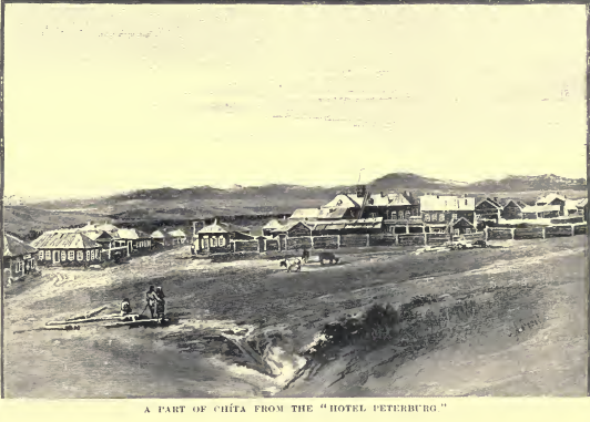 Chita 1885